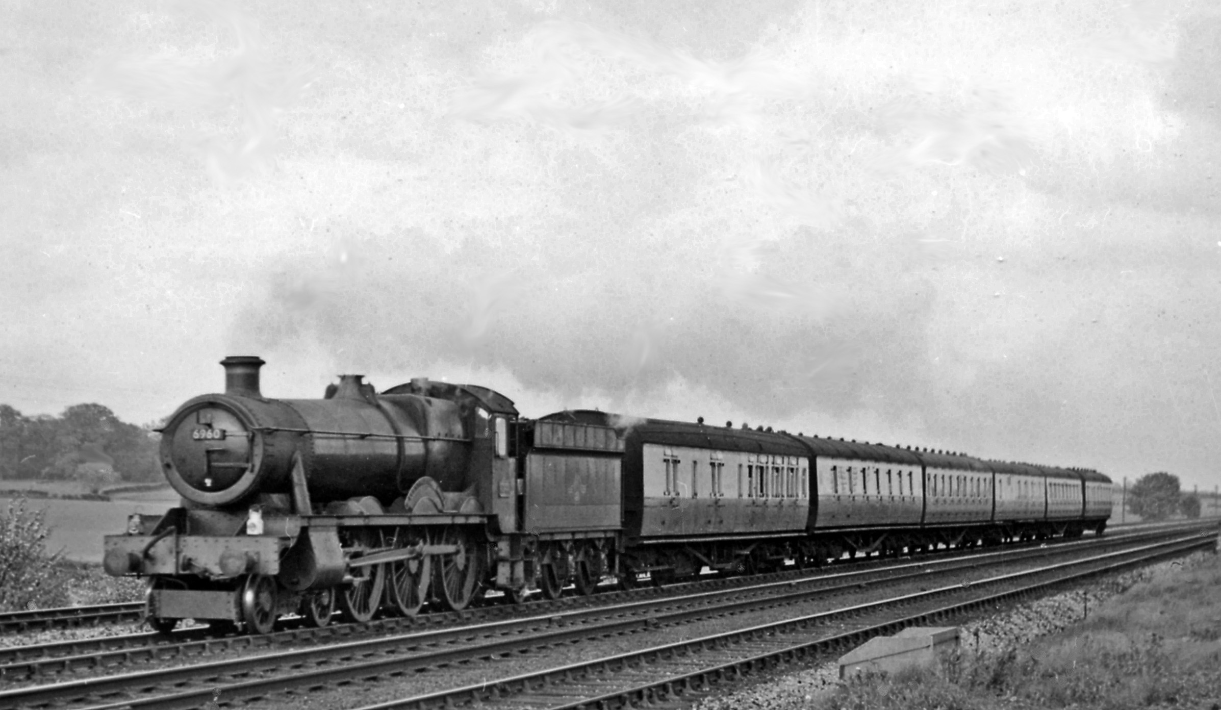 Down stopping train near Ruscombe Siding Box, east of Twyford. View NE, towards London; ex-GWR Paddington - Reading and the West main line. The train is on the Down Slow, heading for Reading behind 'Modified Hall' No. 6960 'Raveningham Hall' (built 3/44, named 6/47, withdrawn 6/64).